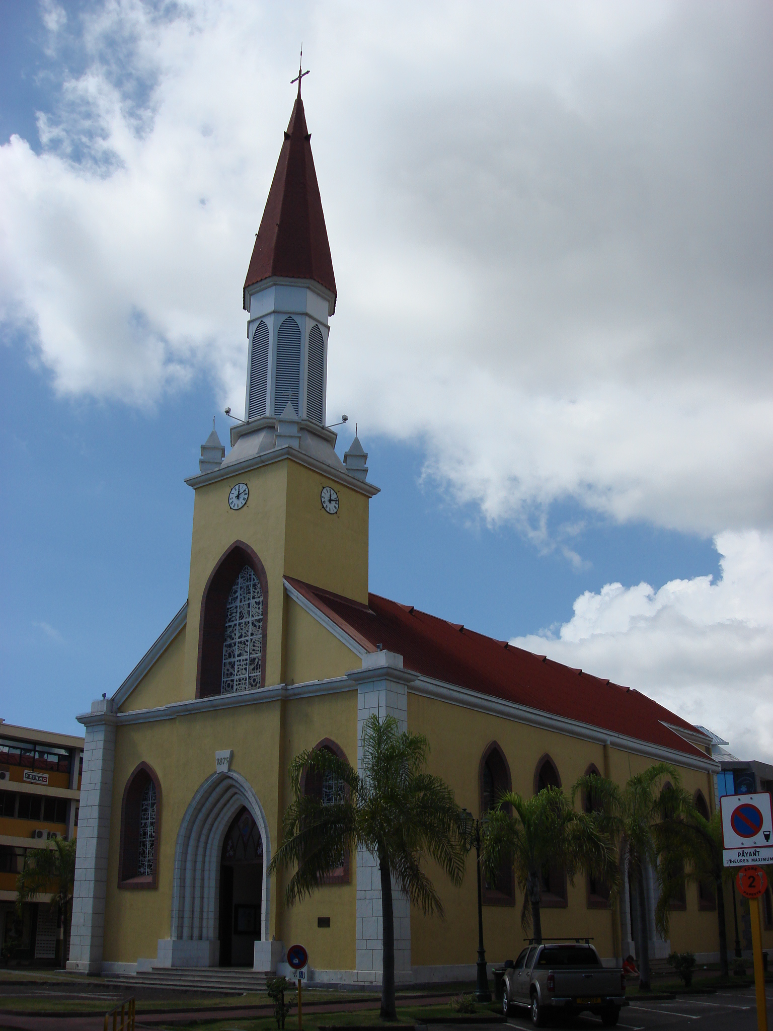 Catholic Church, Papeete, Tahiti, French Polynesia